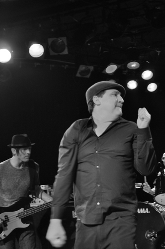 Greg Dulli of Afghan Whigs, Twilight Singers, and Gutter Twins - Live in Concert (photo by Scott Dudelson)